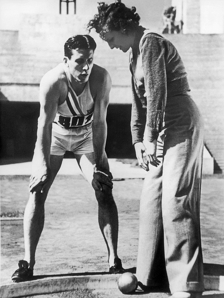 The German film maker Leni RIEFENSTAHL talking with the American olympic track champion Glenn MORRIS at Berlin's stadium before a photograph for the part FEST DER VOLKER (The celebration of the people) of her film THE GODS OF THE STADIUM. This film is a subject of controversy nowadays because of the Nazi context of that time.